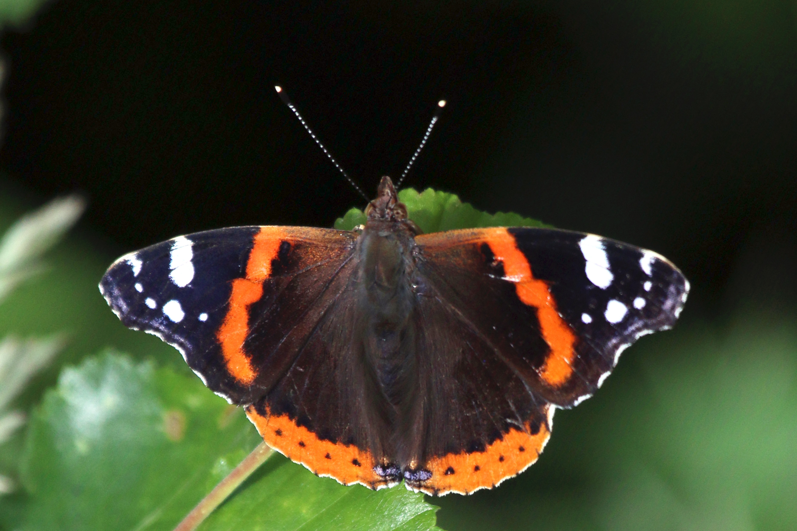 Red admiral butterfly (Vanessa atalanta)